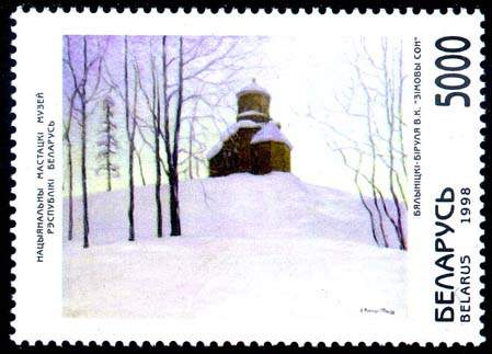 Stamp of Belarus